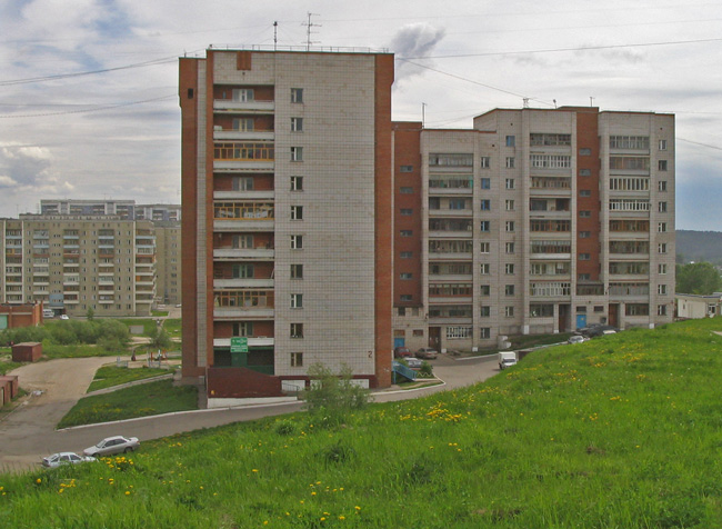 Solnechny live massive in Tomsk